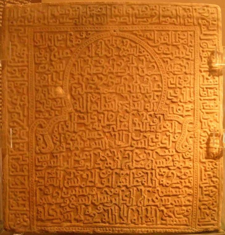 Mahmuna Tombstone